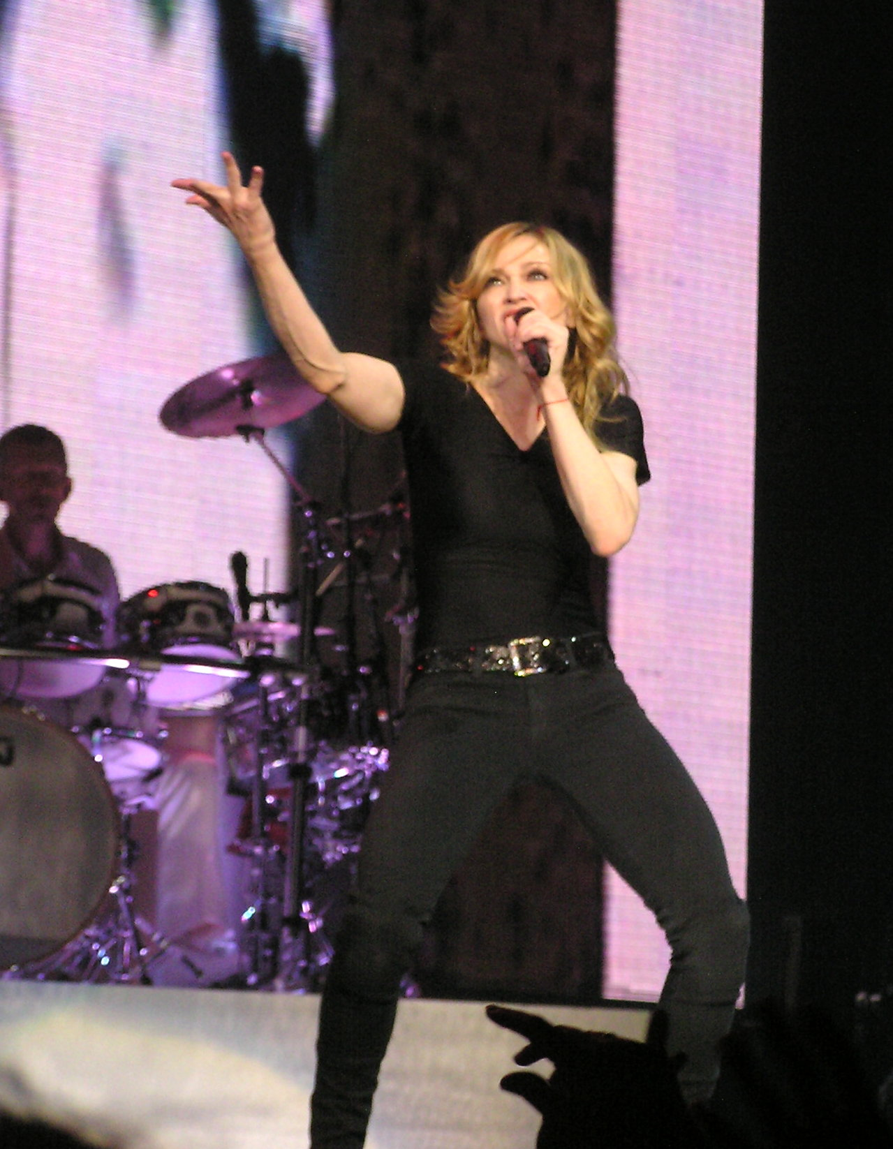 Madonna concert in Fresno